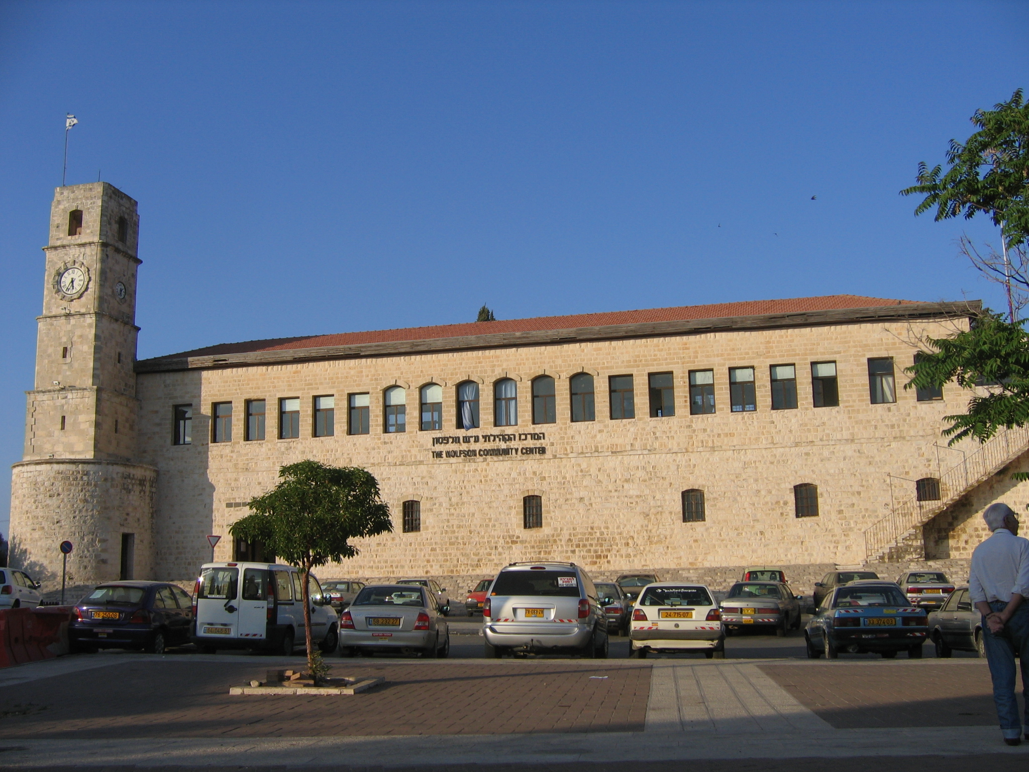 The ancient fortress in Safed (צפת in Hebrew), a city in northern Israel. Used by the Ottoman rulers, and then the British.